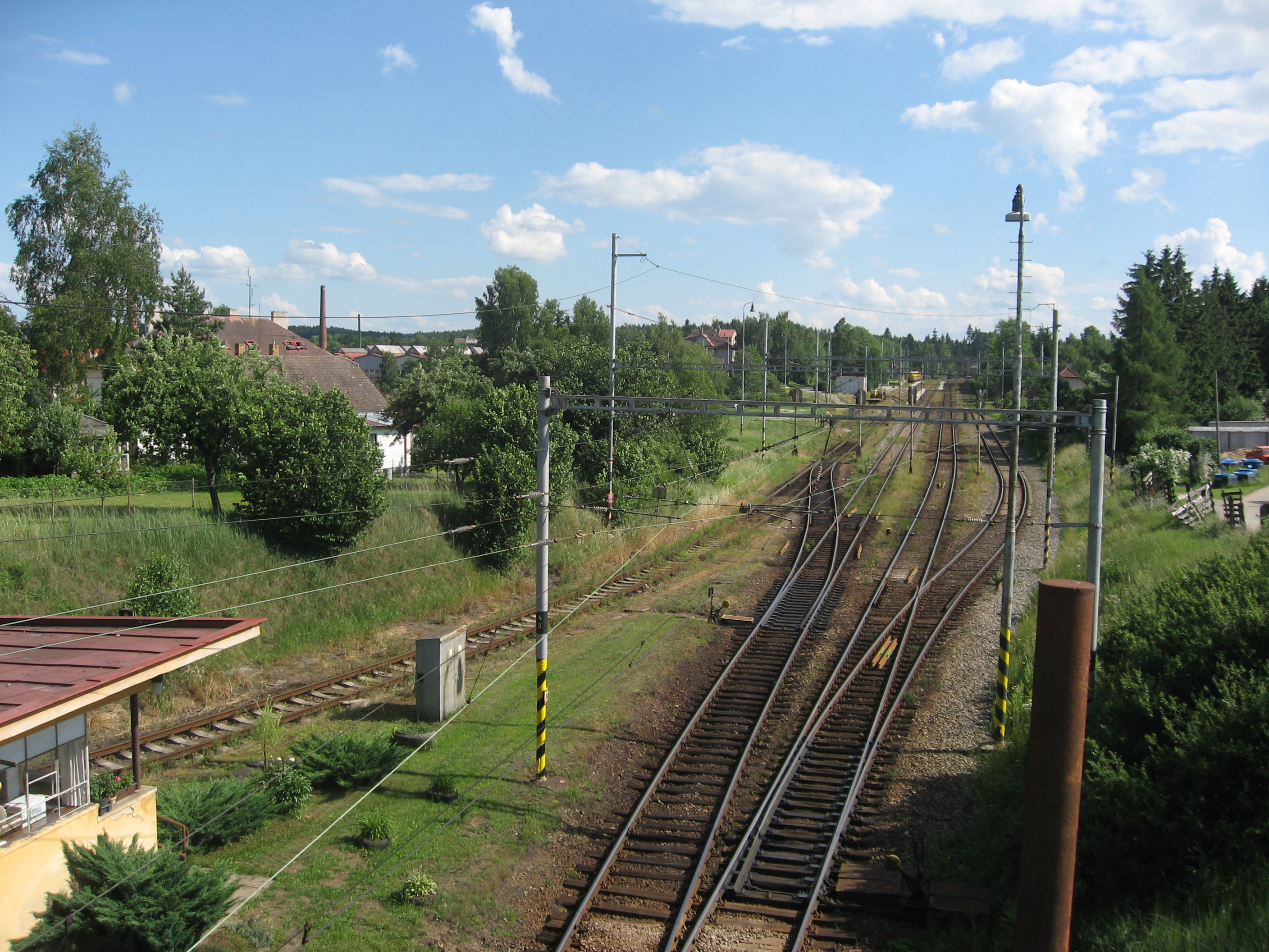 Railway station Dobronín. Branch line to Polná on behind the building on the left.